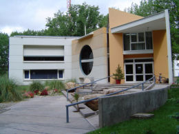 Pierre Auger Observatory